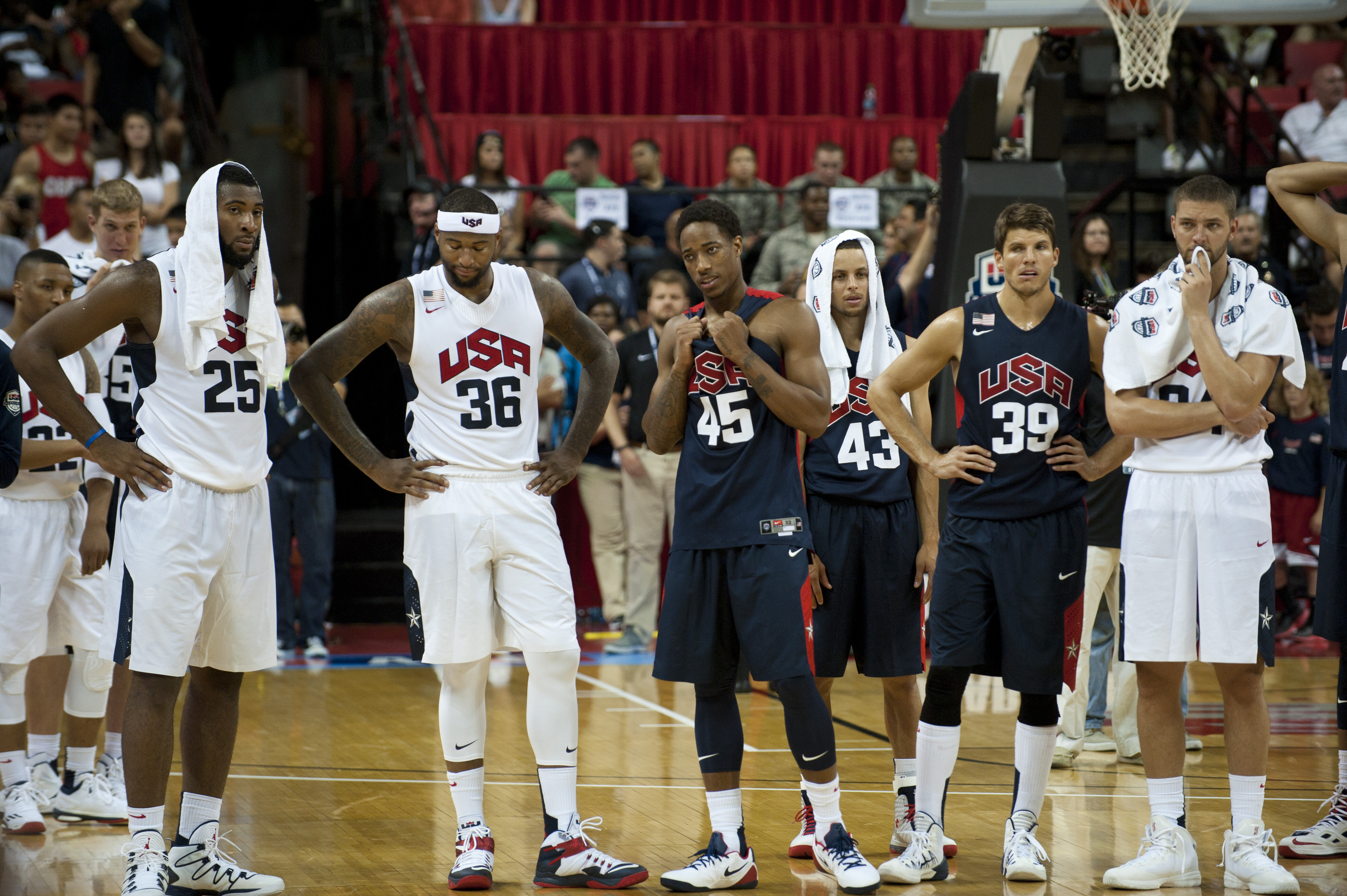 8/6/2014 - Players on the USA Basketball Men’s National Team react after their teammate Paul George suffered a serious leg injury during the fourth quarter of an intra-squad scrimmage at the Thomas and Mack Center in Las Vegas, August 1, 2014. After George was carted off the court, head coach Mike Krzyzewski addressed the arena stating the game would not continue out of respect to George and his family.